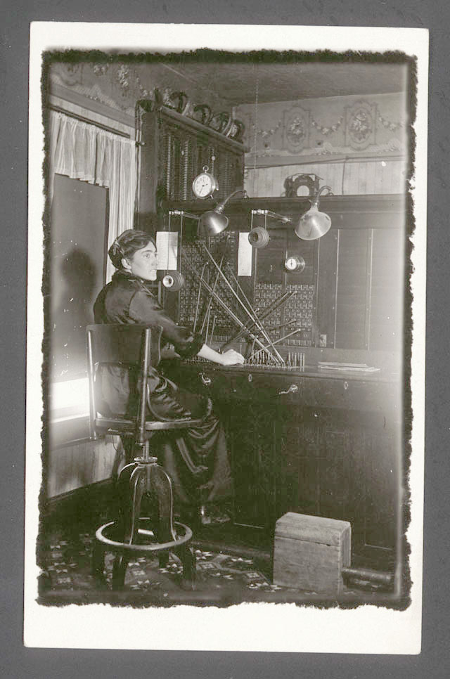 Telephone operator at exchange equipment, Nebraska, c. early 20th century